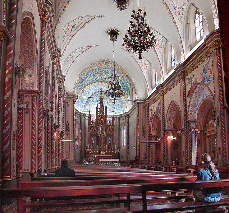 Interior of Caxias do Sul Cathedral, Brazil.